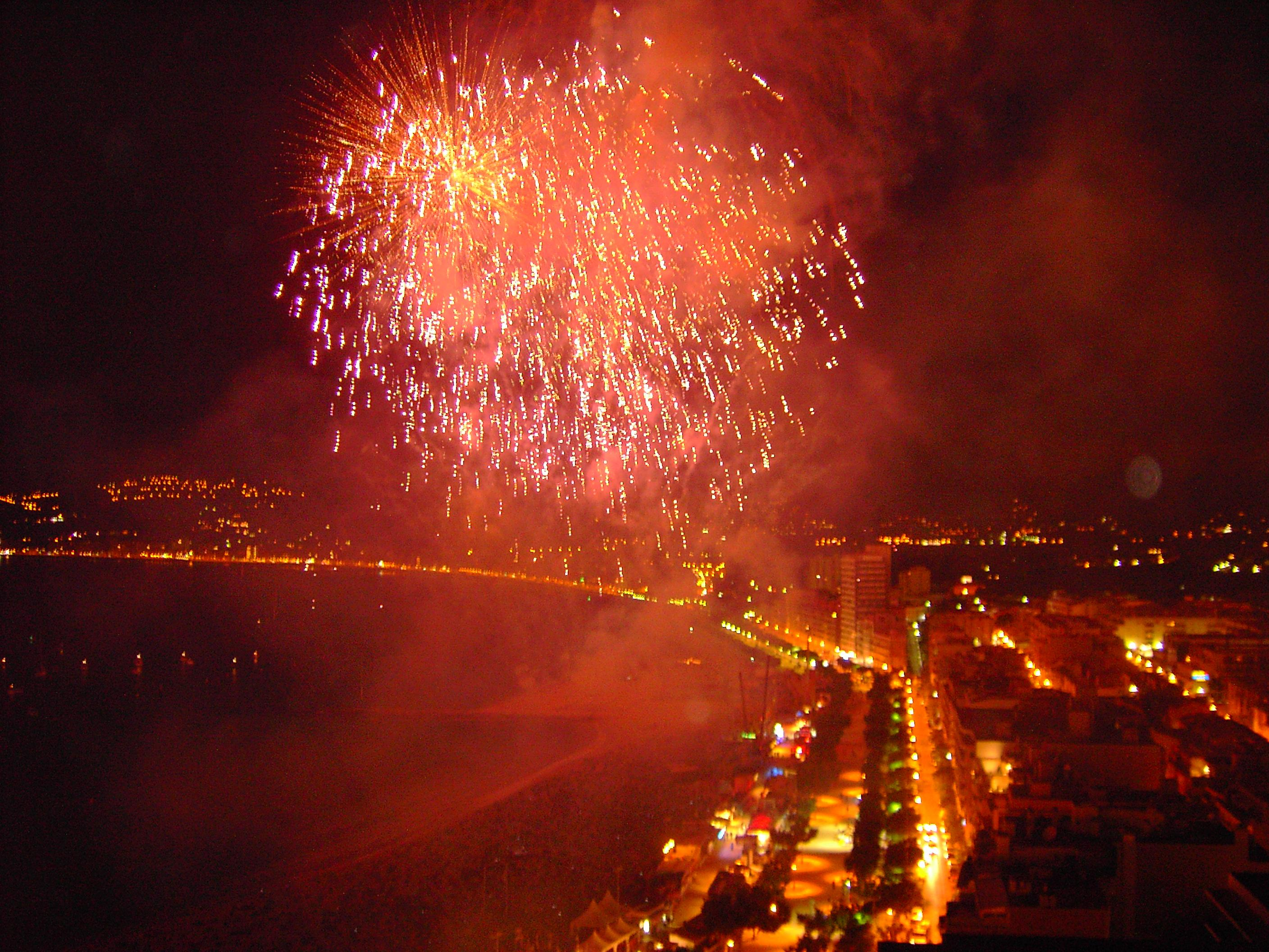 St.Joan Fireworks from the building L'Empordà, Palamós